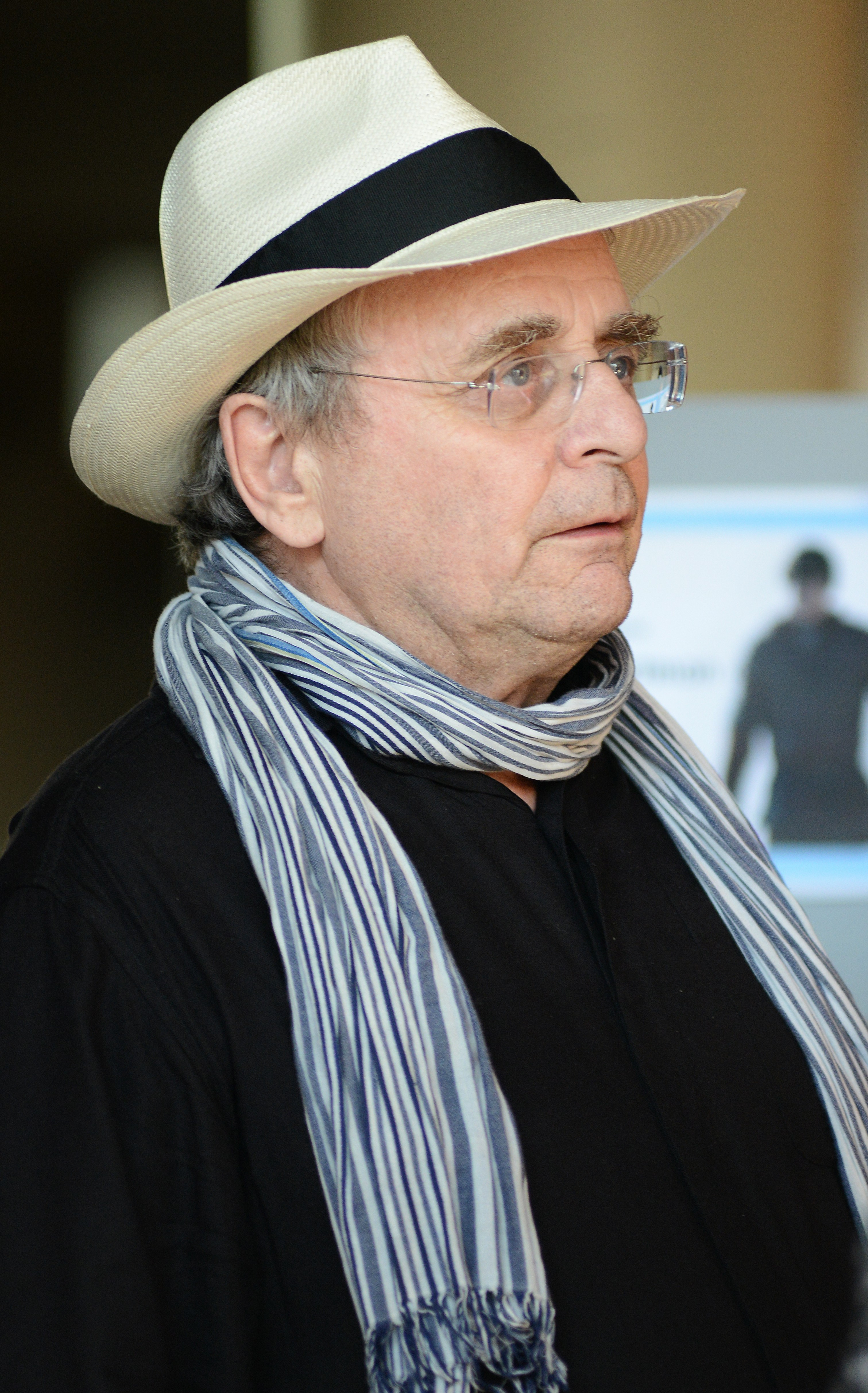 Acteur: Docteur Who, The Hobbit